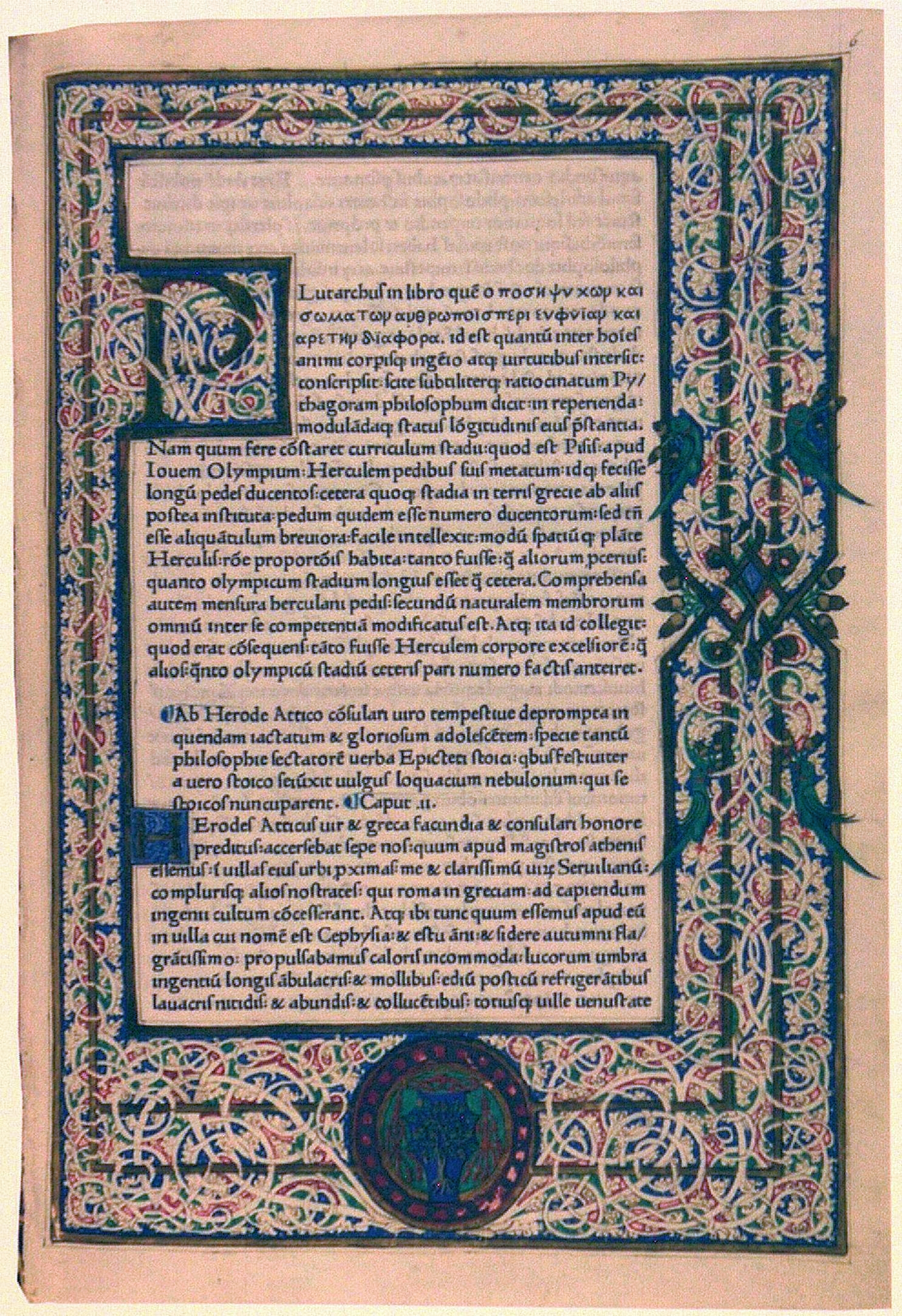 The beginning of the “Attic Nights” in an incunabulum printed at Rome.